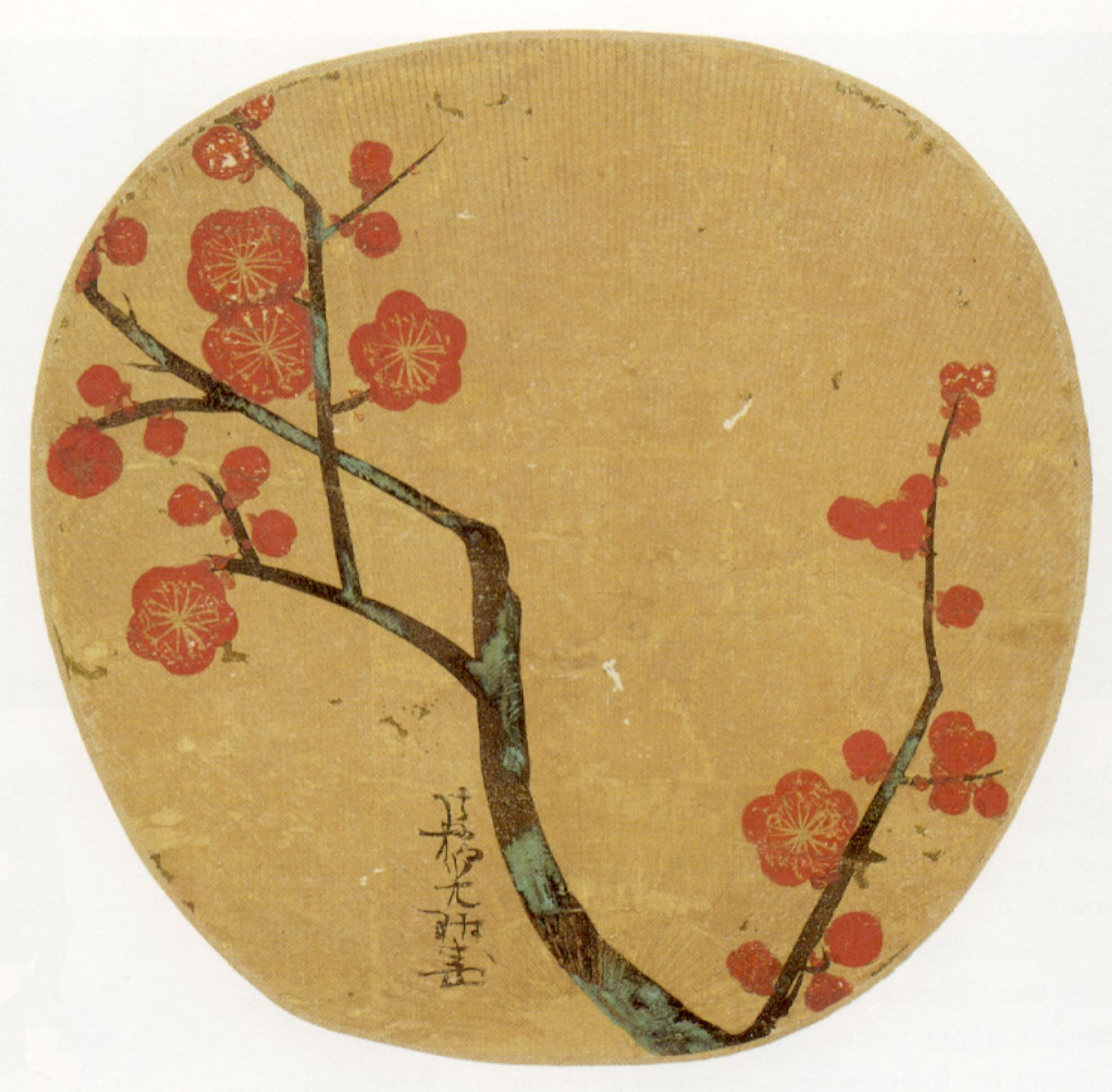 Plum Blossoms, ink and color on gold paper by Ogata Kōrin, Japanese fan, 1702,Honolulu Academy of Arts